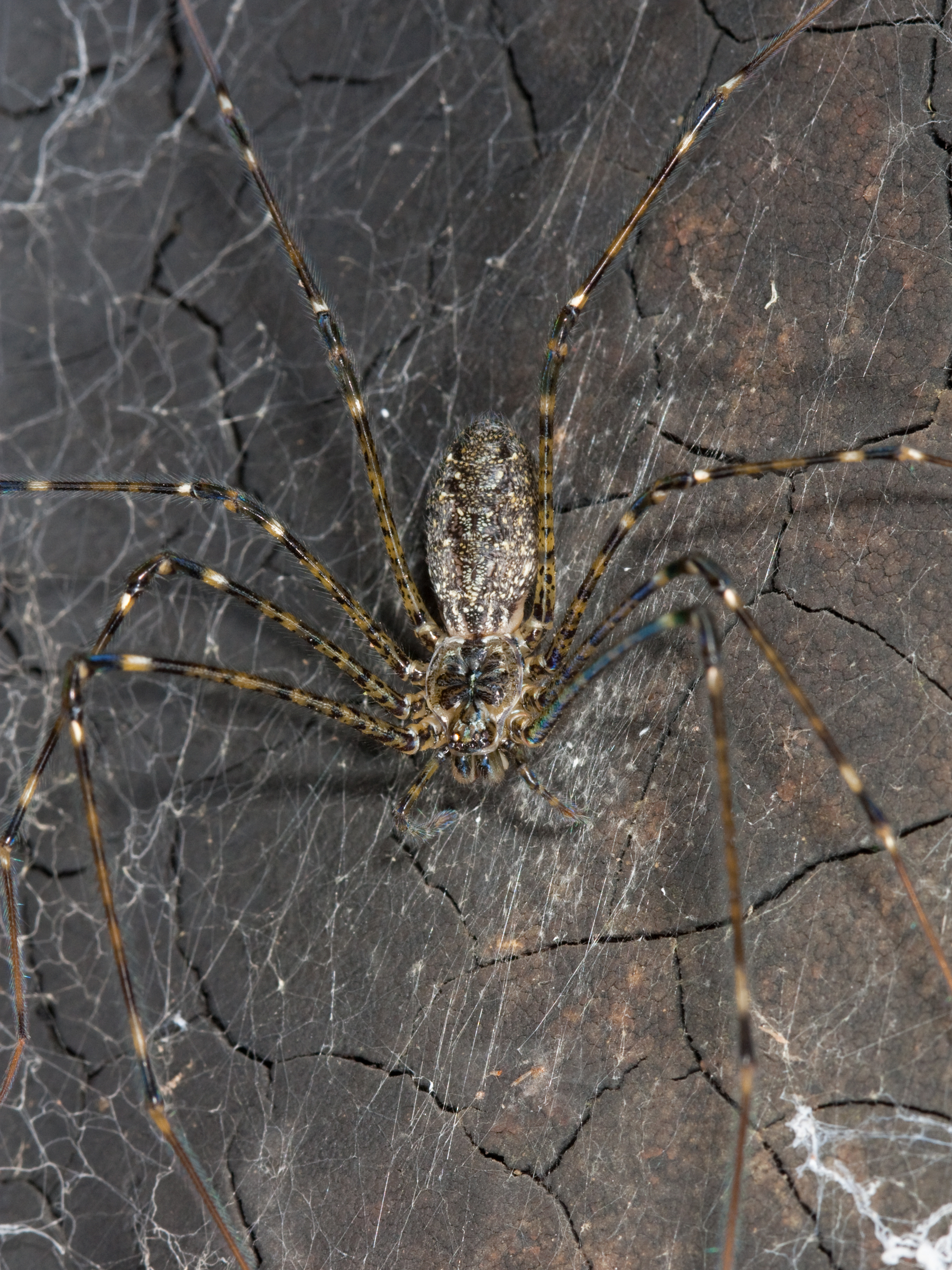 Lampshade spider (Hypochilus pococki) at Oconaluftee, Great Smoky Mountains National Park, Swain County, North Carolina, USA